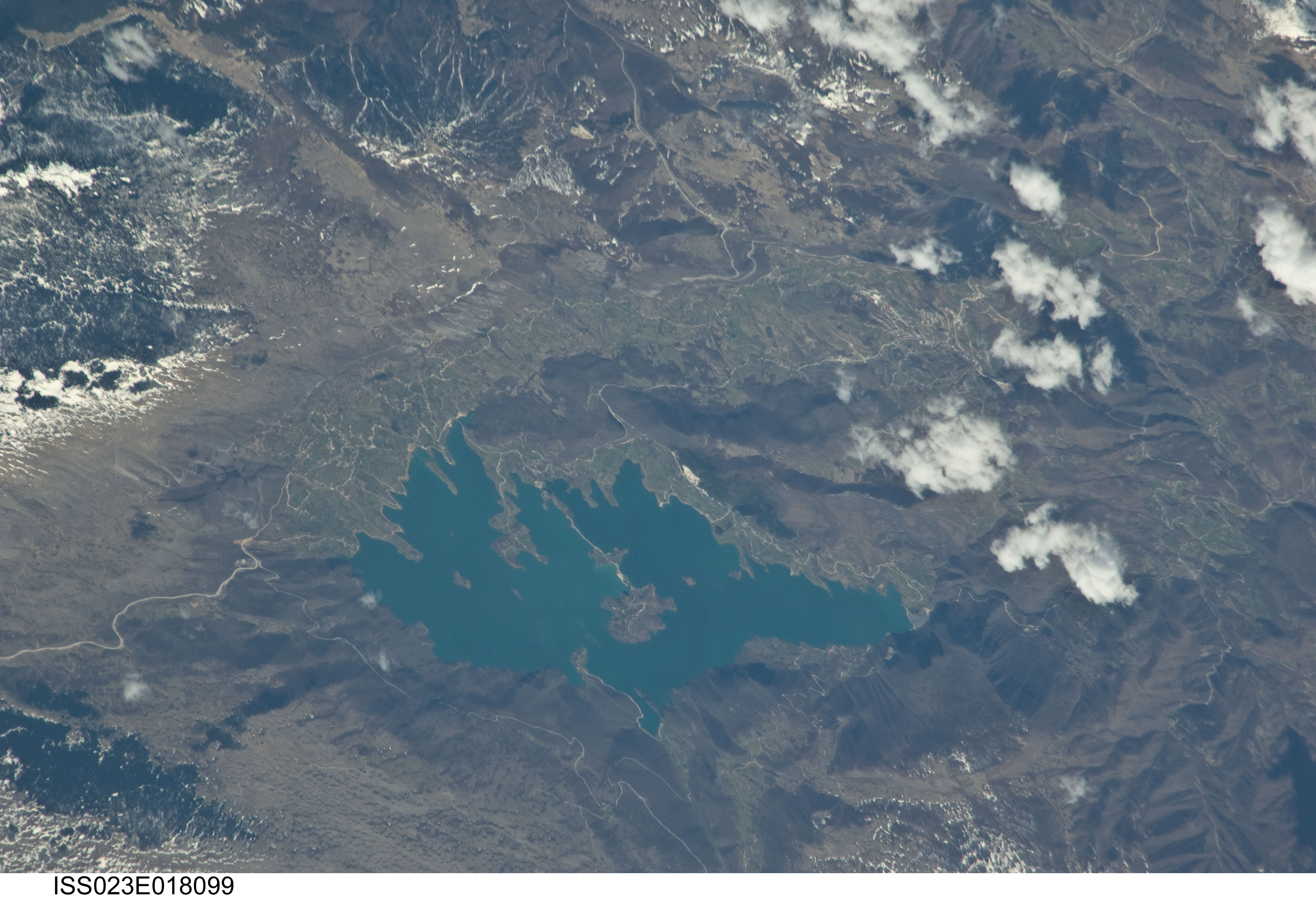 Aerial photographs of Rama lake 094 europe 254